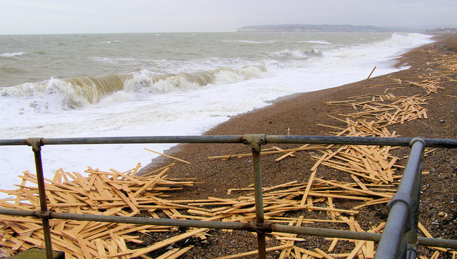 Timber from the ship Ice Prince in Seaford Bay The cargo ship "Ice Prince" sank off the Dorset Coast on 15th January 2007. Within a few days thousands of planks of untreated timber was washed ashore on Sussex beaches. This is a view of Seaford beach looking towards Newhaven Harbour taken a few days later.